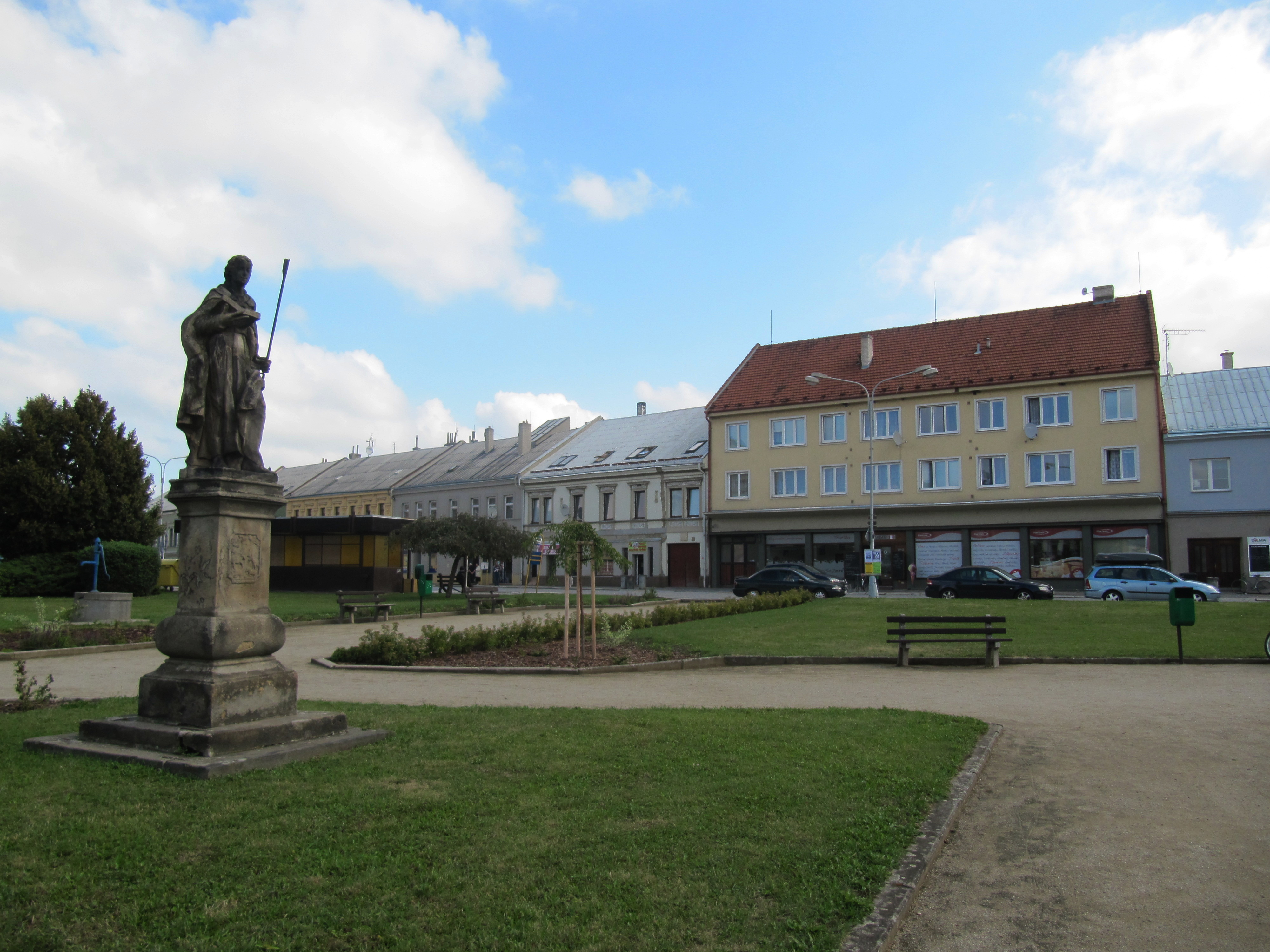 Kojetín, Přerov District, Czech Republic. Square Masarykovo náměstí.